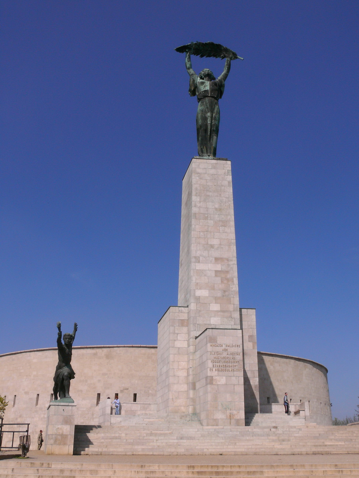 The Statue of Liberty, Budapest